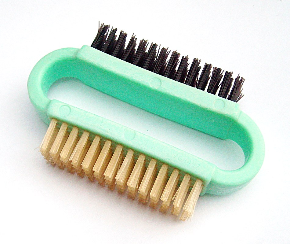 A nail brush for scrubbing under the fingernails when washing hands.